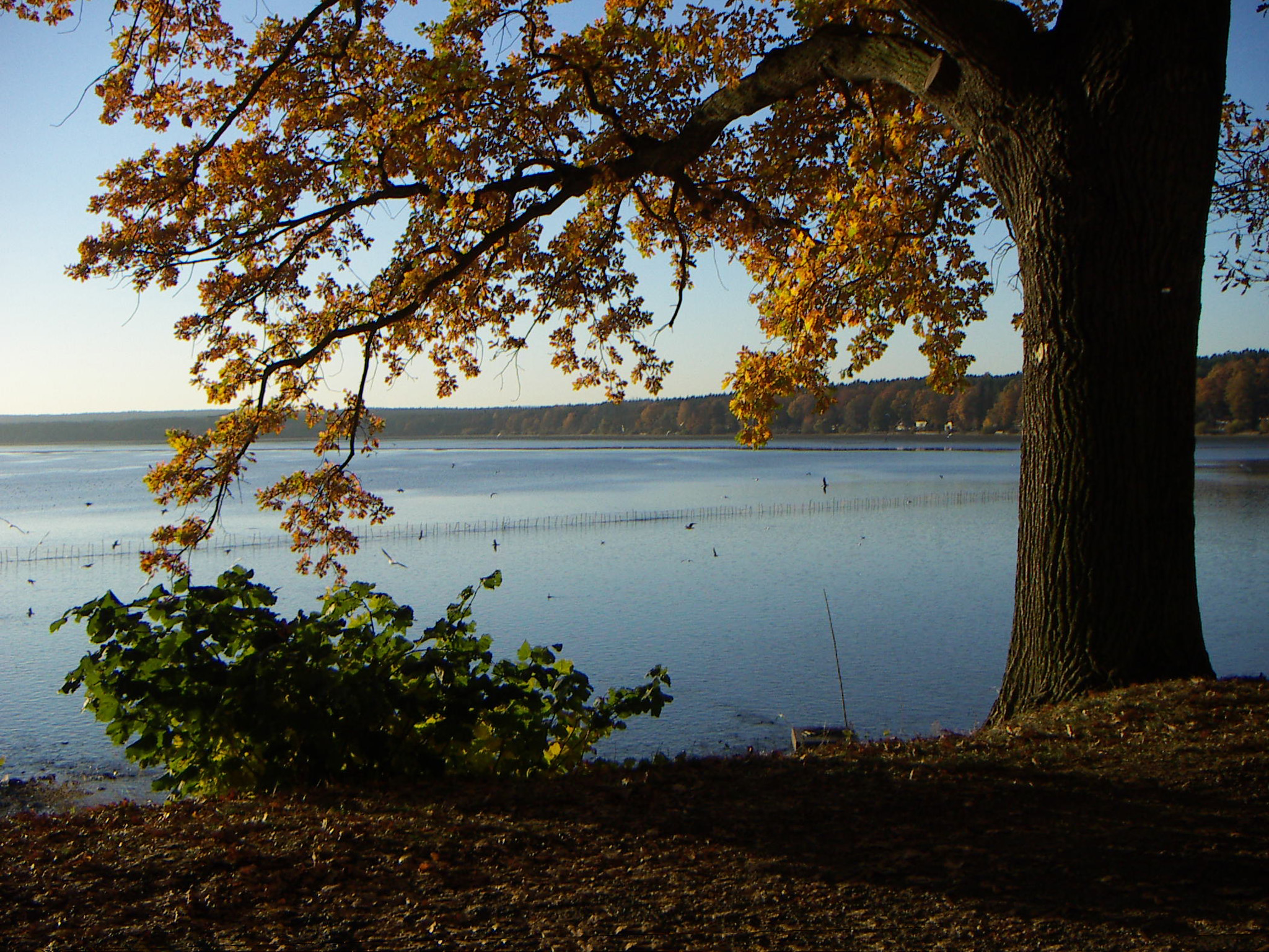 Bezdrev pond in October, Czech Republic